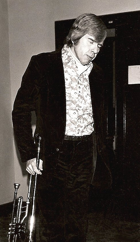 Bob Brookmeyer (1978), an American jazz valve trombonist in Warsaw, Poland